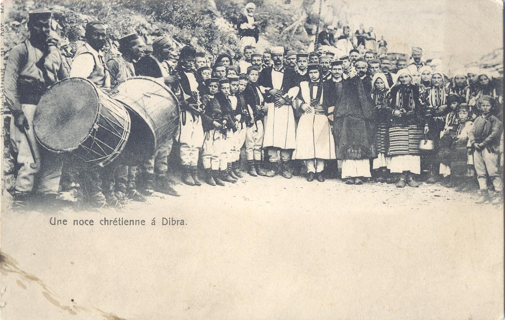 Wedding from Debar